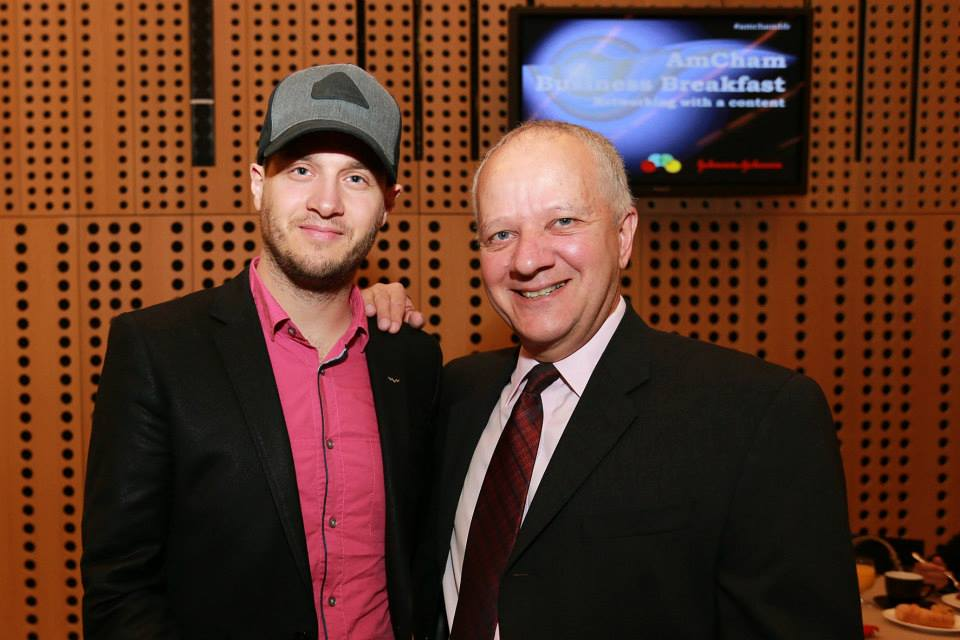 Mitja Okorn and Joseph Mussomeli